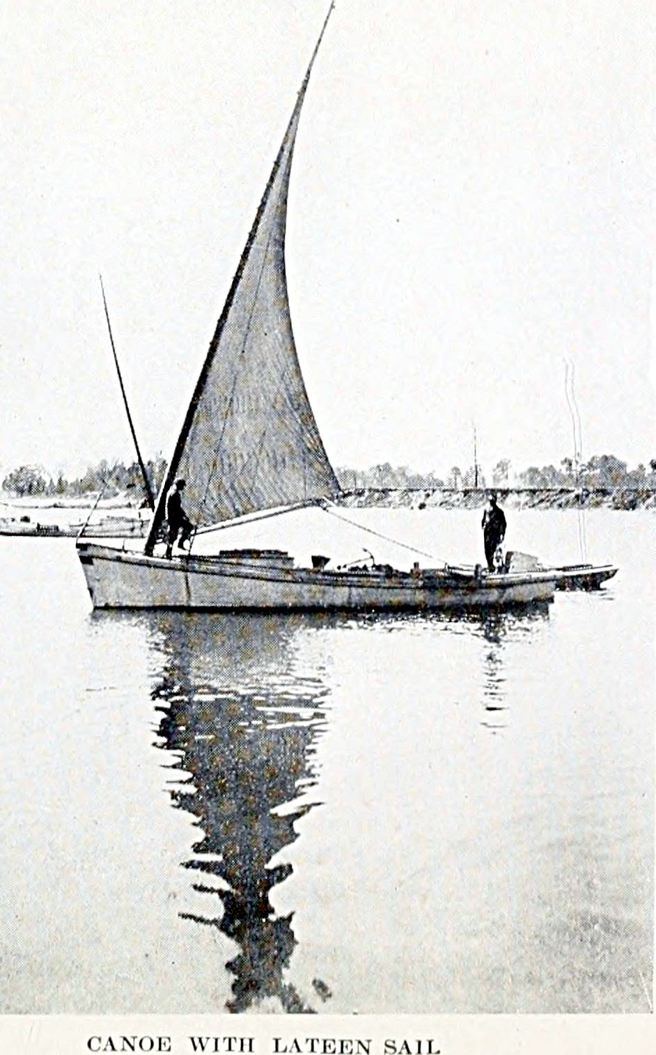 From: Delaware and the Eastern Shore - Edward Noble Vallandigham 1922. Log canoe with raked leg-o-mutton sail often confused with a lateen rig.